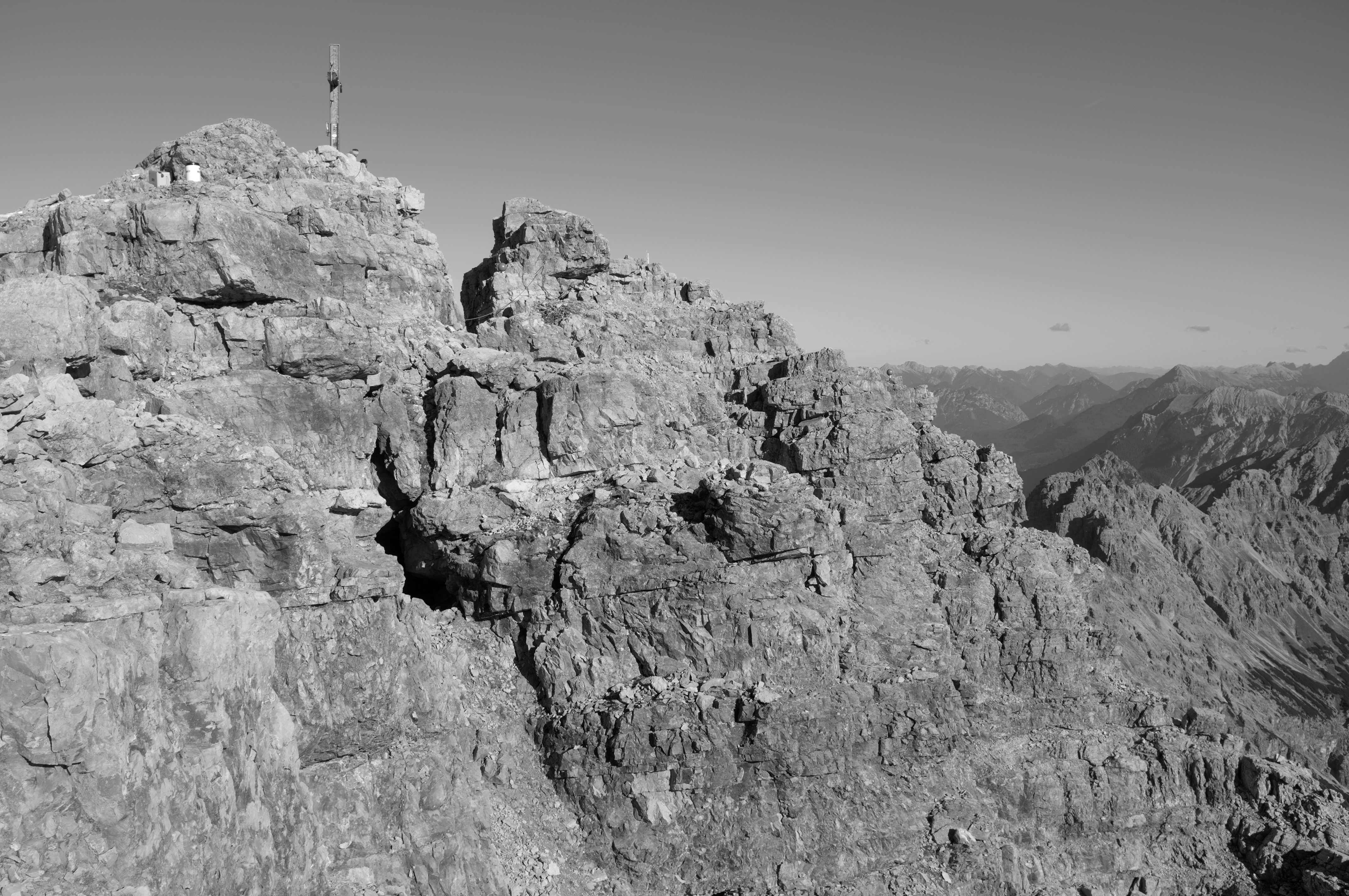 Hochvogel Summit area on November 11, 2018. A deep, rapidly growing crack can be seen to the right of the summit, the width of the crack is monitored with instruments installed by the TU Munich, some instruments are visible on the right side. The complete area in the center of the picture is in risk of collapsing in a huge landslide.